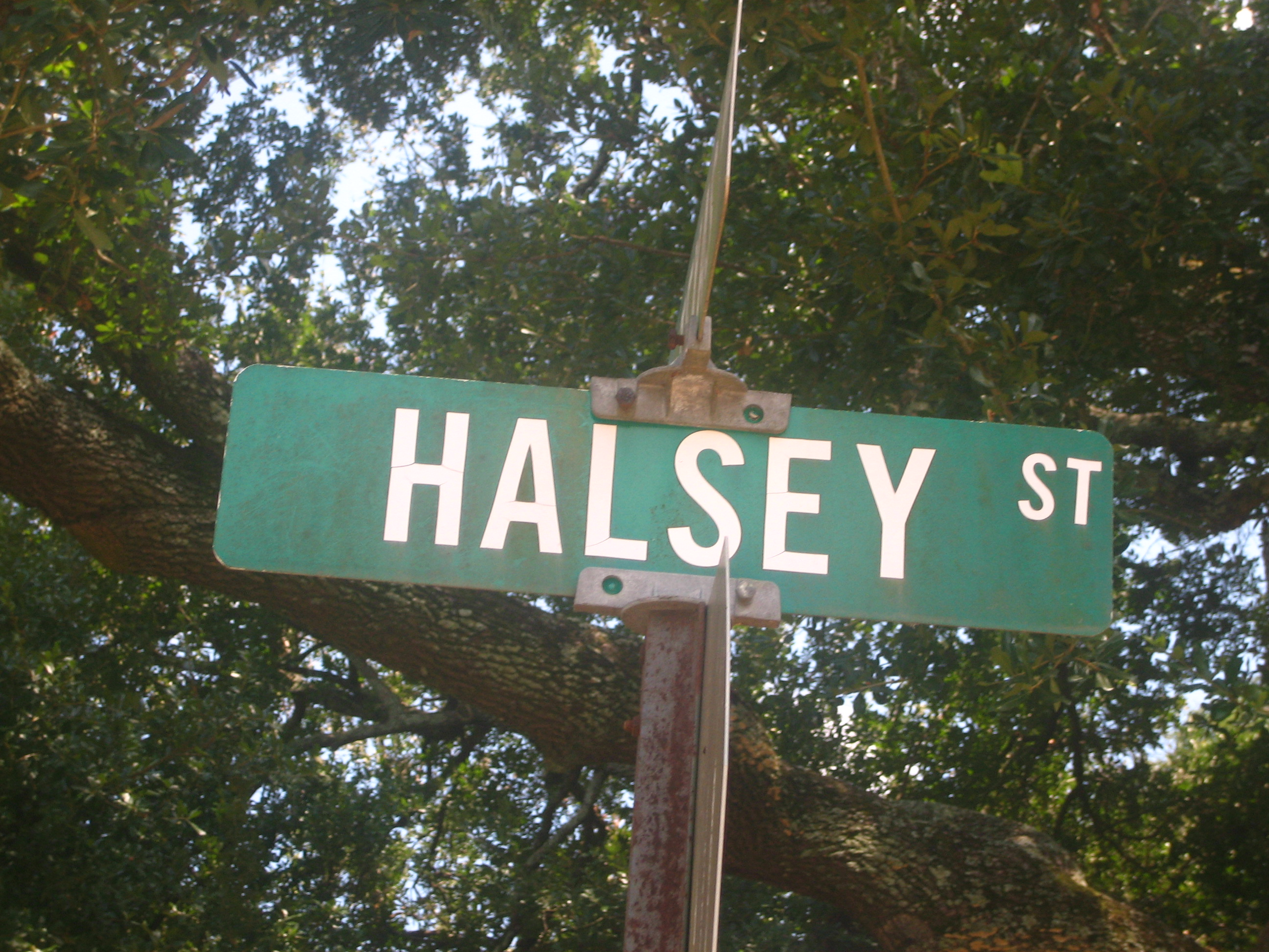 I took photo of Halsey Street sign in Alexandria, LA, with Canon camera.